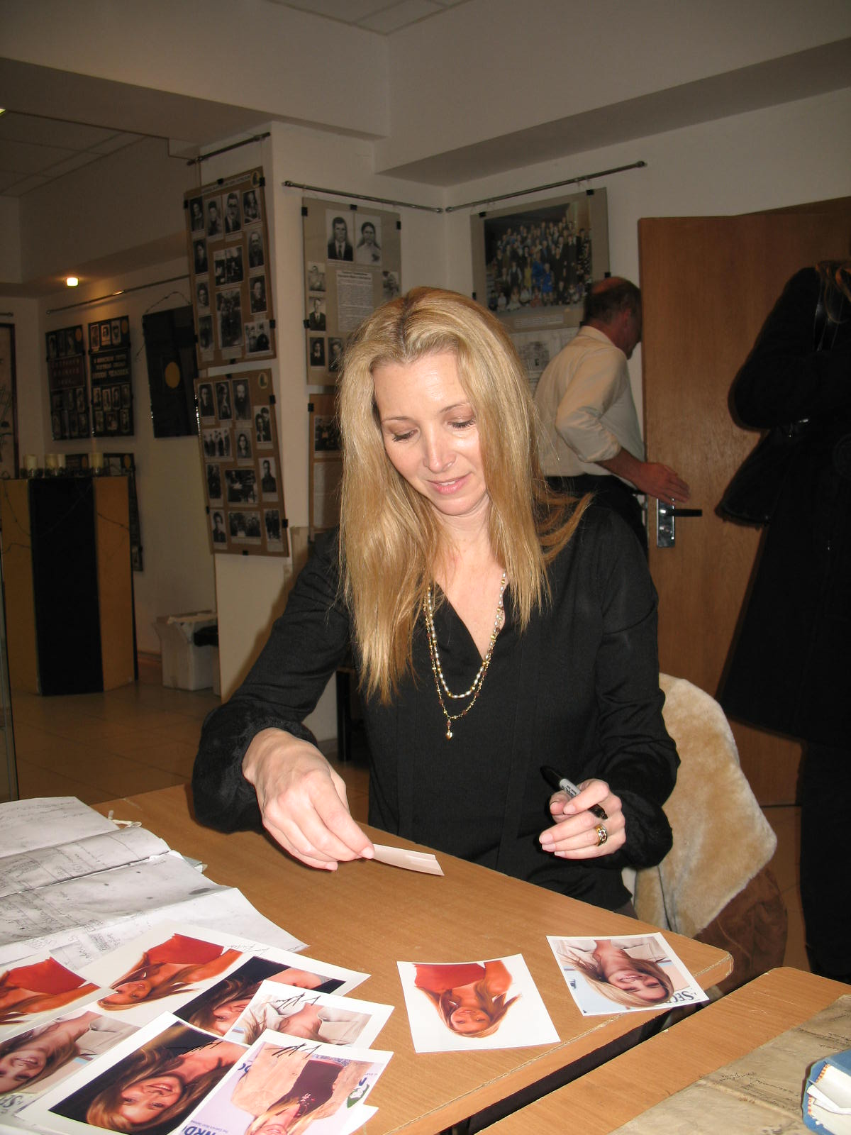 Lisa Kudrow in Museum of history and culture of Jews of Belarus.jpg